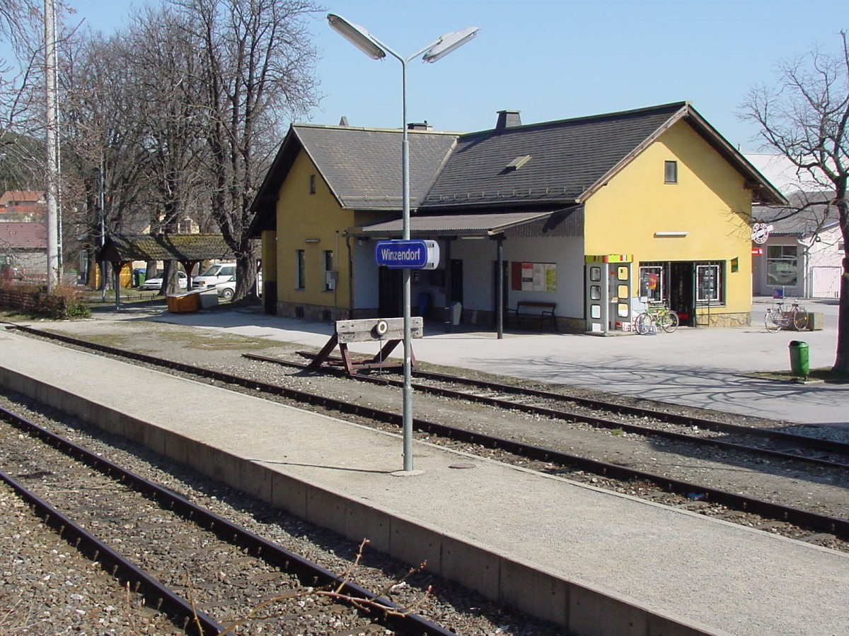 Train station Winzendorf in Lower Austria